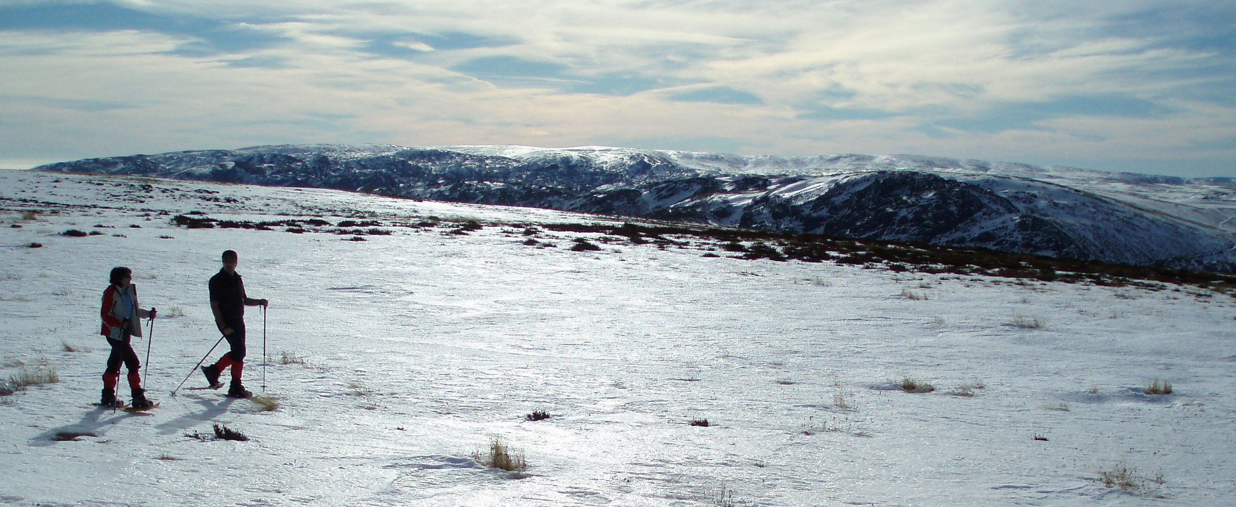 Snowshoeing in Sanabria, Spain